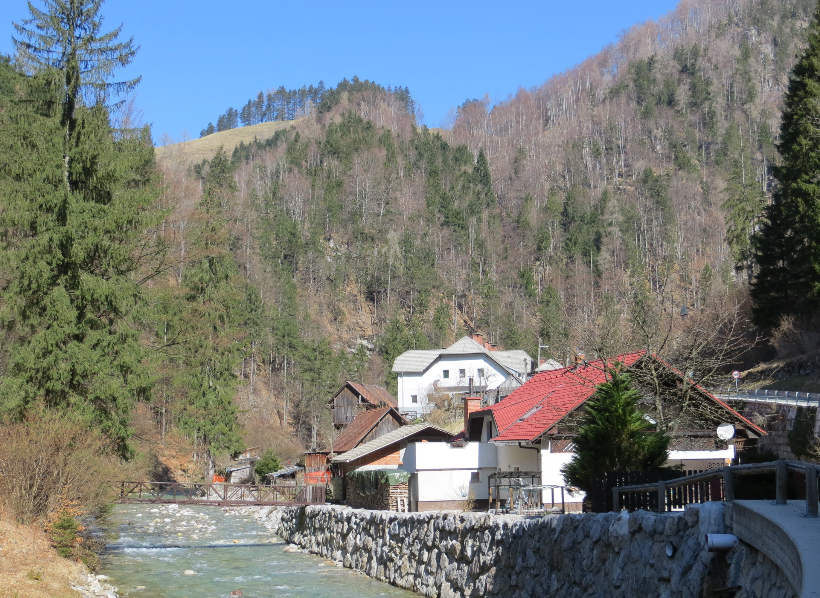 The hamlet of Zgornje Fužine, Spodnje Jezersko, Municipality of Jezersko, Slovenia